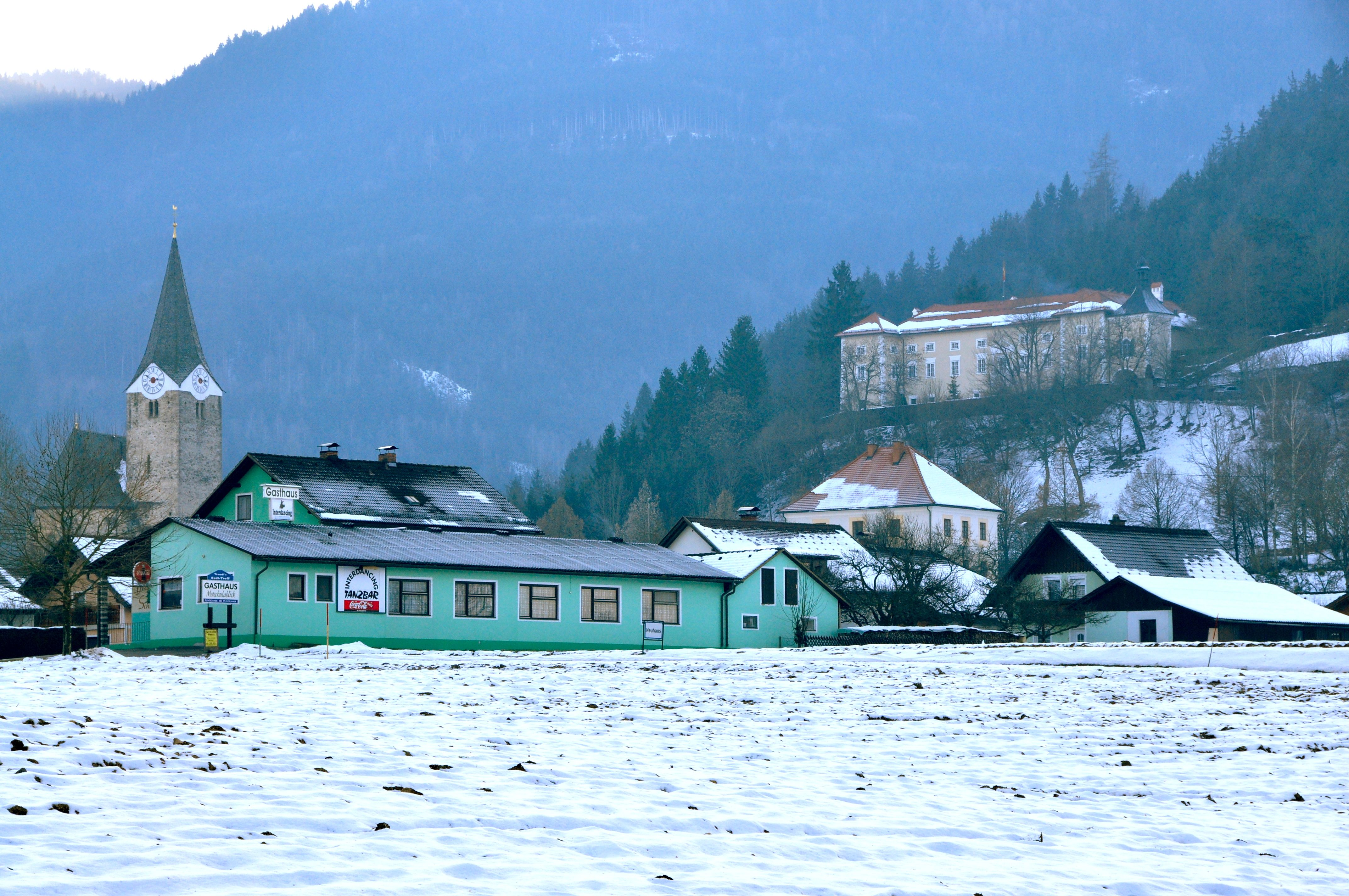 Northeastern view at Neuhaus, municipality Neuhaus, district Voelkermarkt, Carinthia, Austria, EU